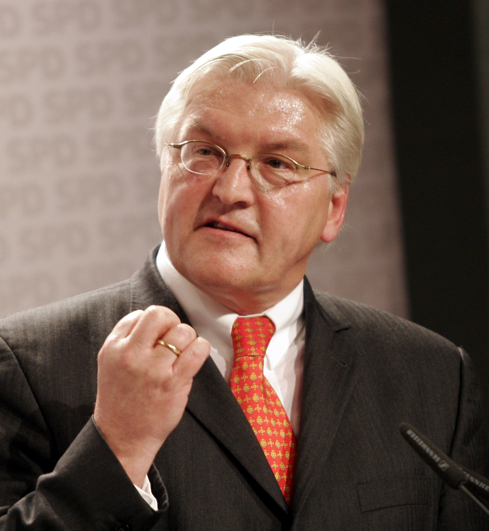 Frank-Walter Steinmeier, foreign minister (Secretary of State) of Germany and Vice-Chancellor of Germany, during an election campaign in Bensheim (Hesse, Germany)